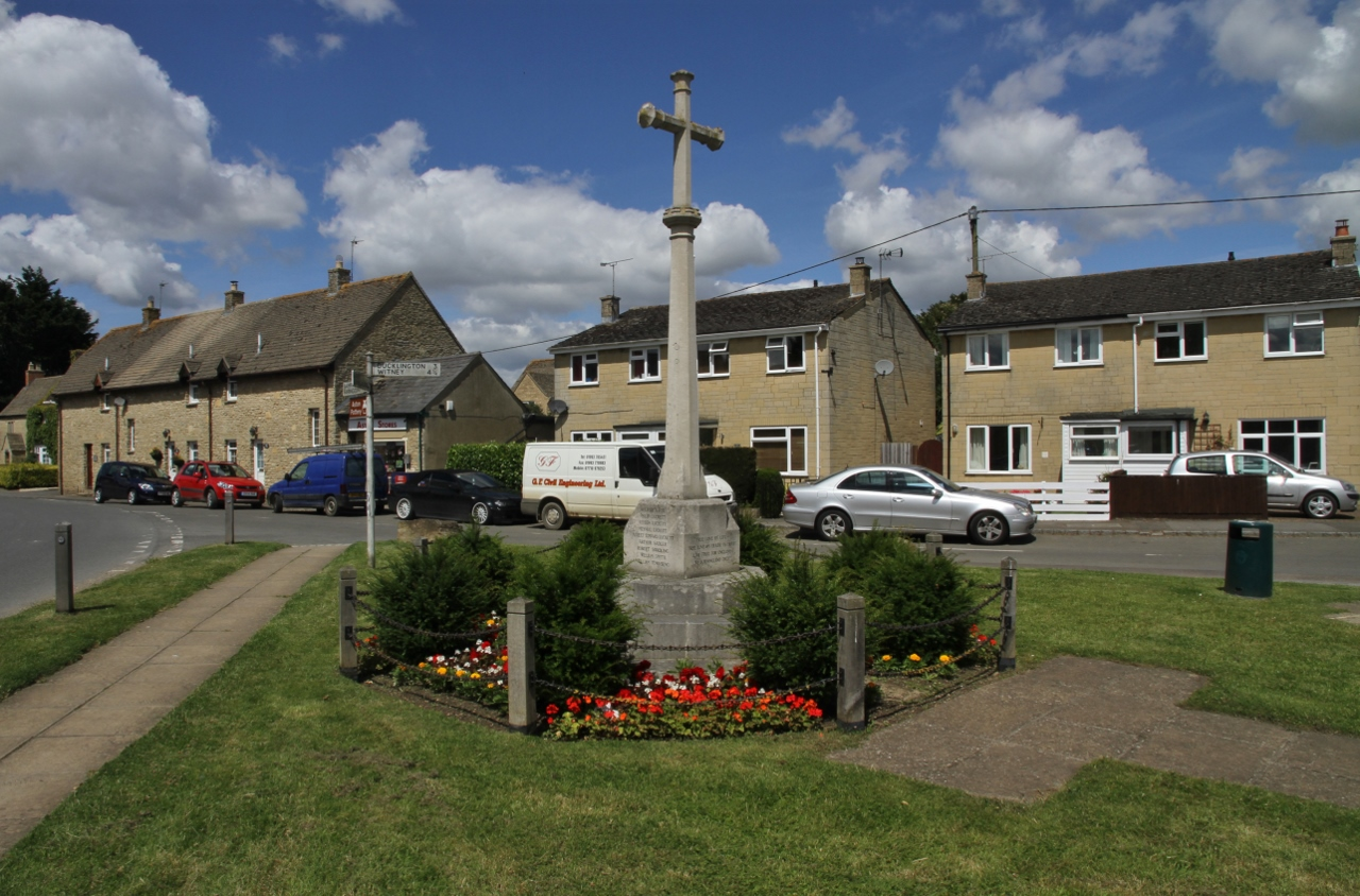 War Memorial in Aston, Oxfordshire, seen from the southeast